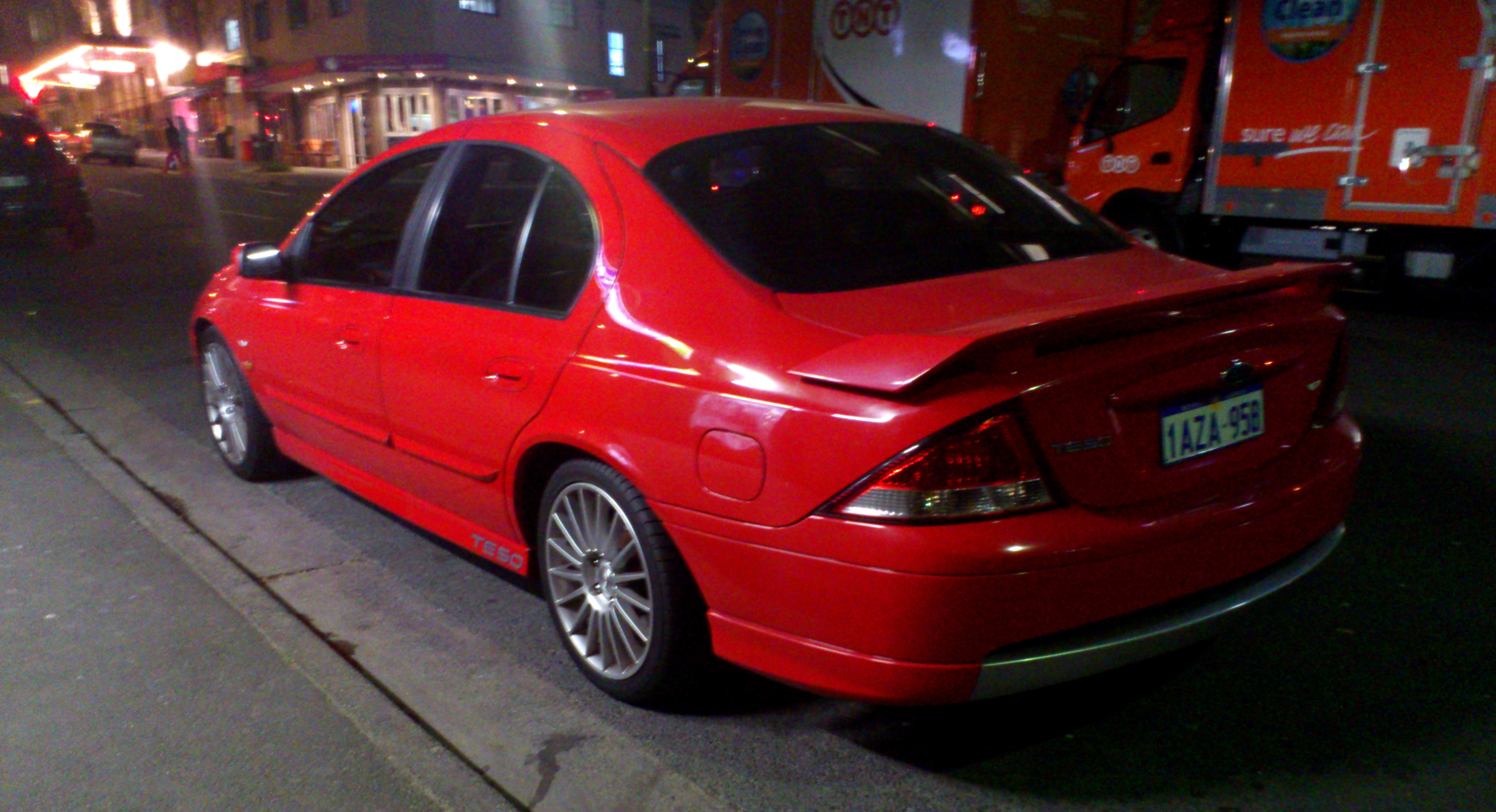 Tickford TE50